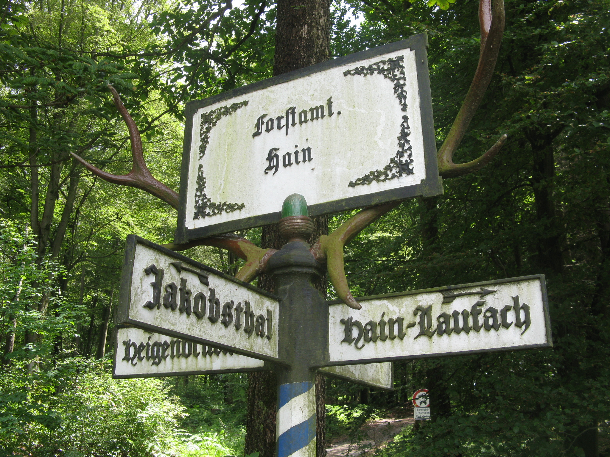 Heigenbrücken (Bavarian Spessart/Germany), 19th century trail sign with deer antlers